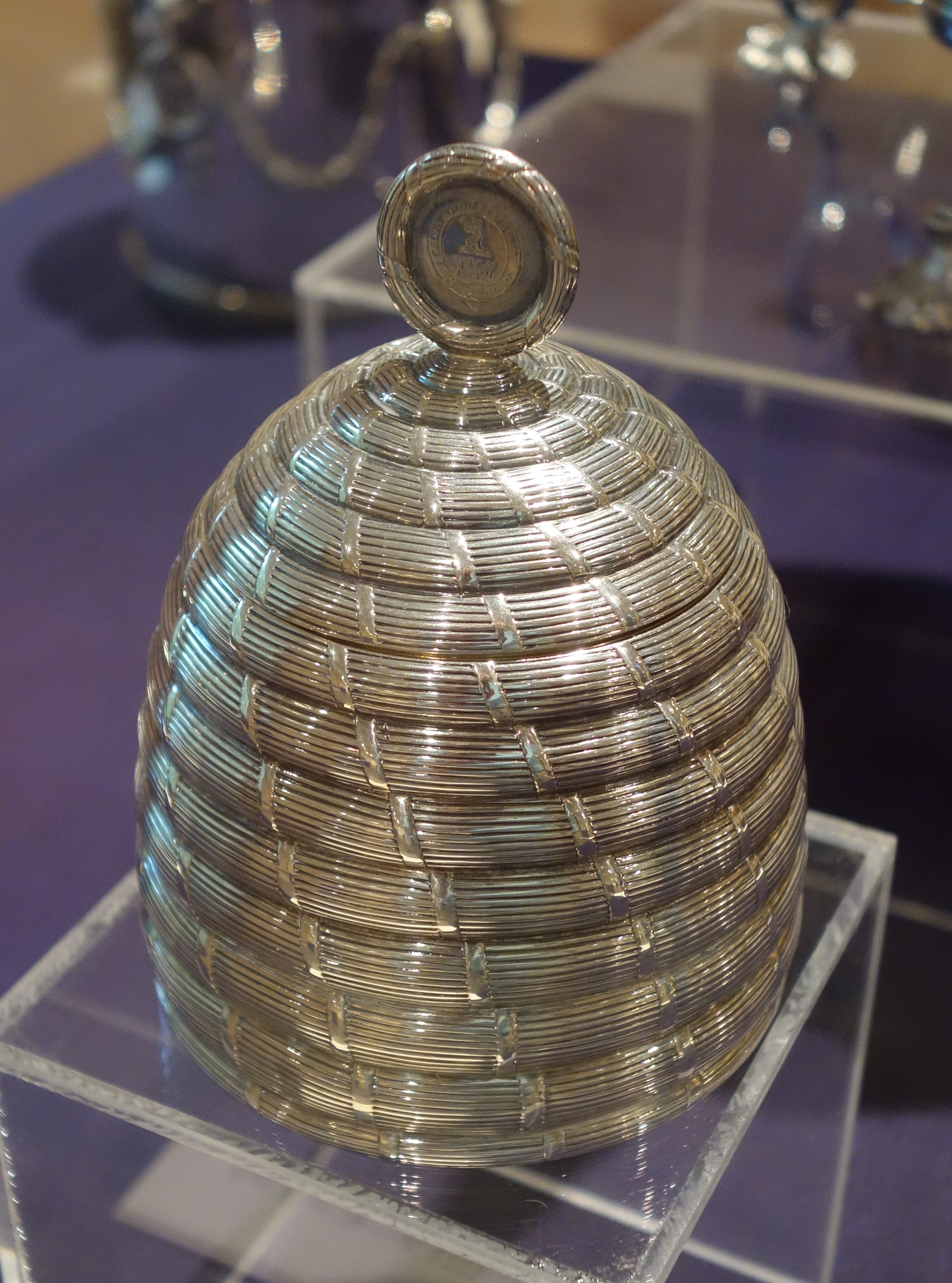 Exhibit in the Huntington Museum of Art, Huntington, West Virginia, USA. This artwork is in the public domain because the artist died more than 70 years ago.